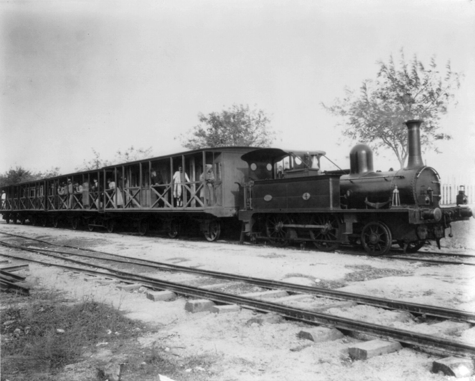 Railway train of the Italian Line between Tunis and the site of ancient Carthage leaving Marsa.